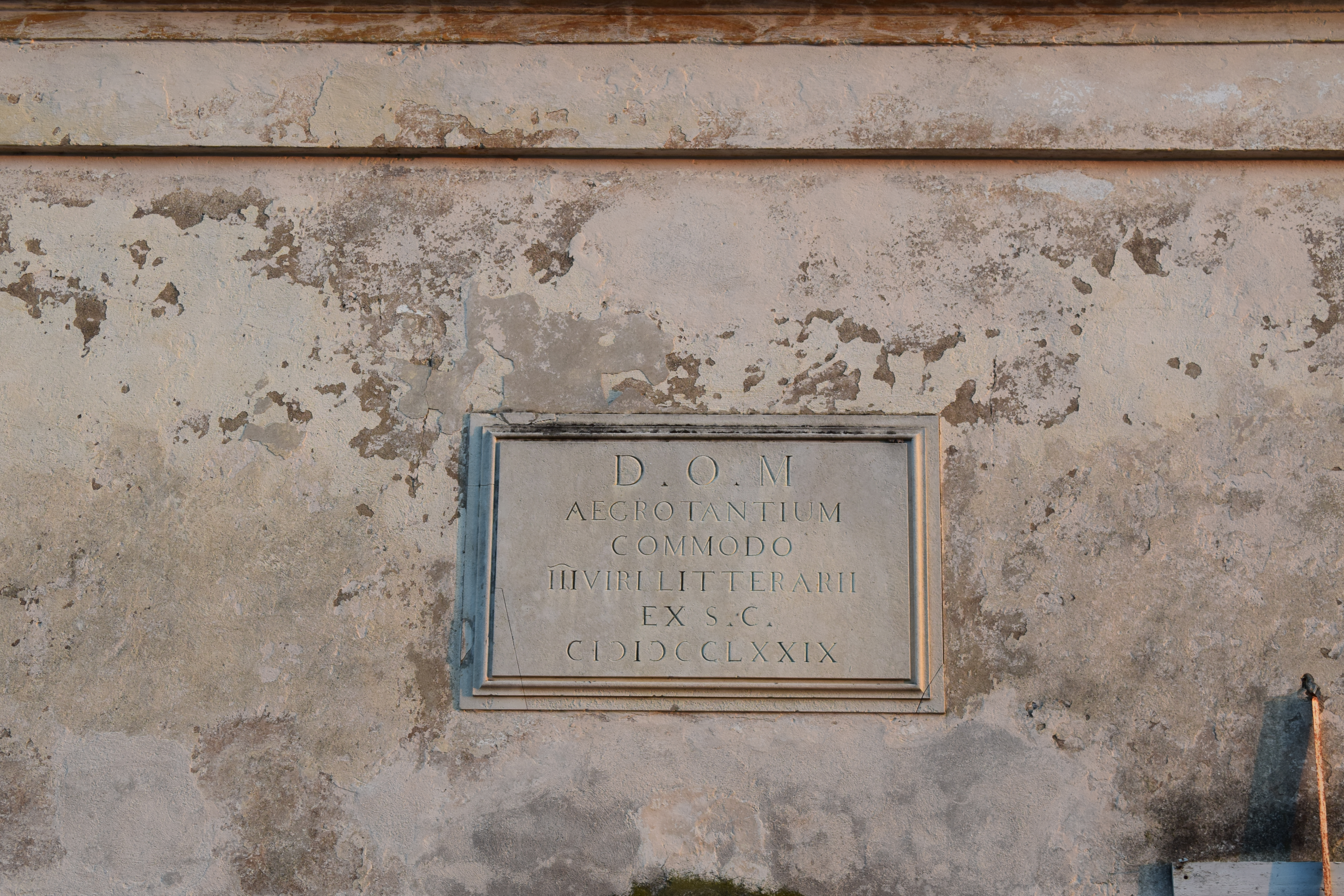 Oratorio del Montirone (Abano Terme), inscription over the entrance.